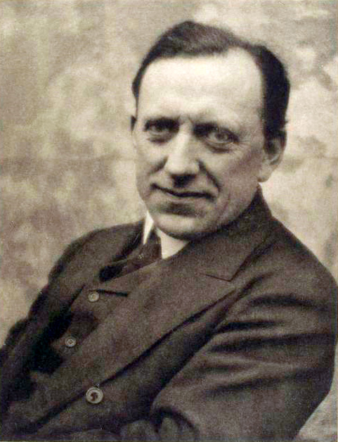 J. L. Garvin, London, December 3rd, 1913